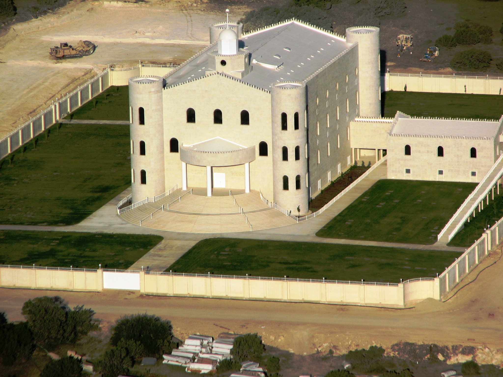 Temple of the FLDS in El Dorado, Texas